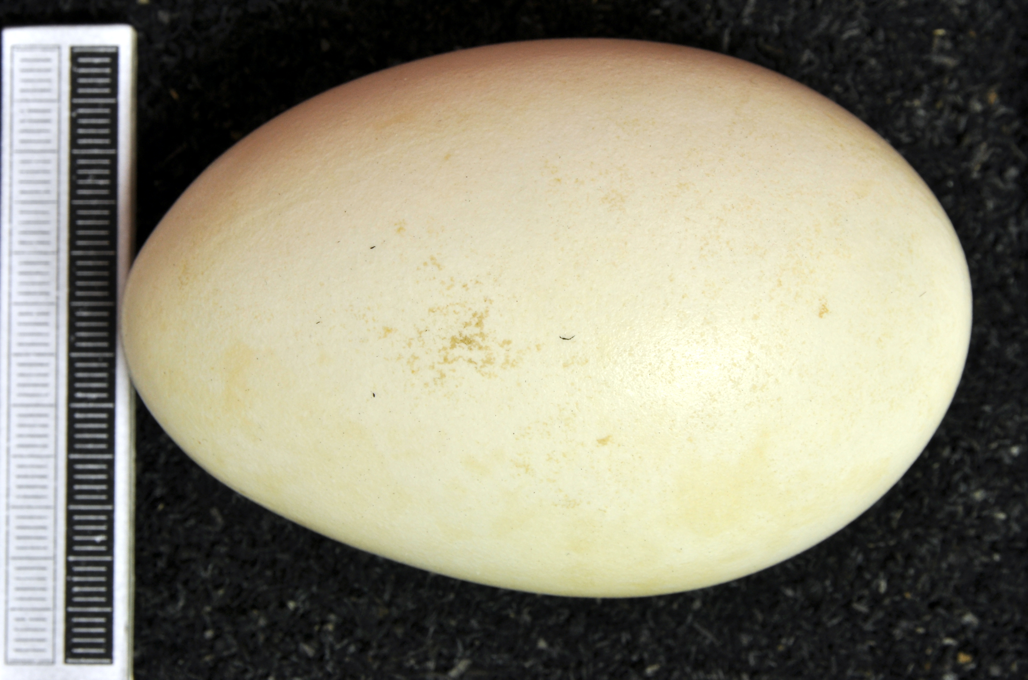 Bean goose Anser fabalis , egg, Coll. Museum Wiesbaden